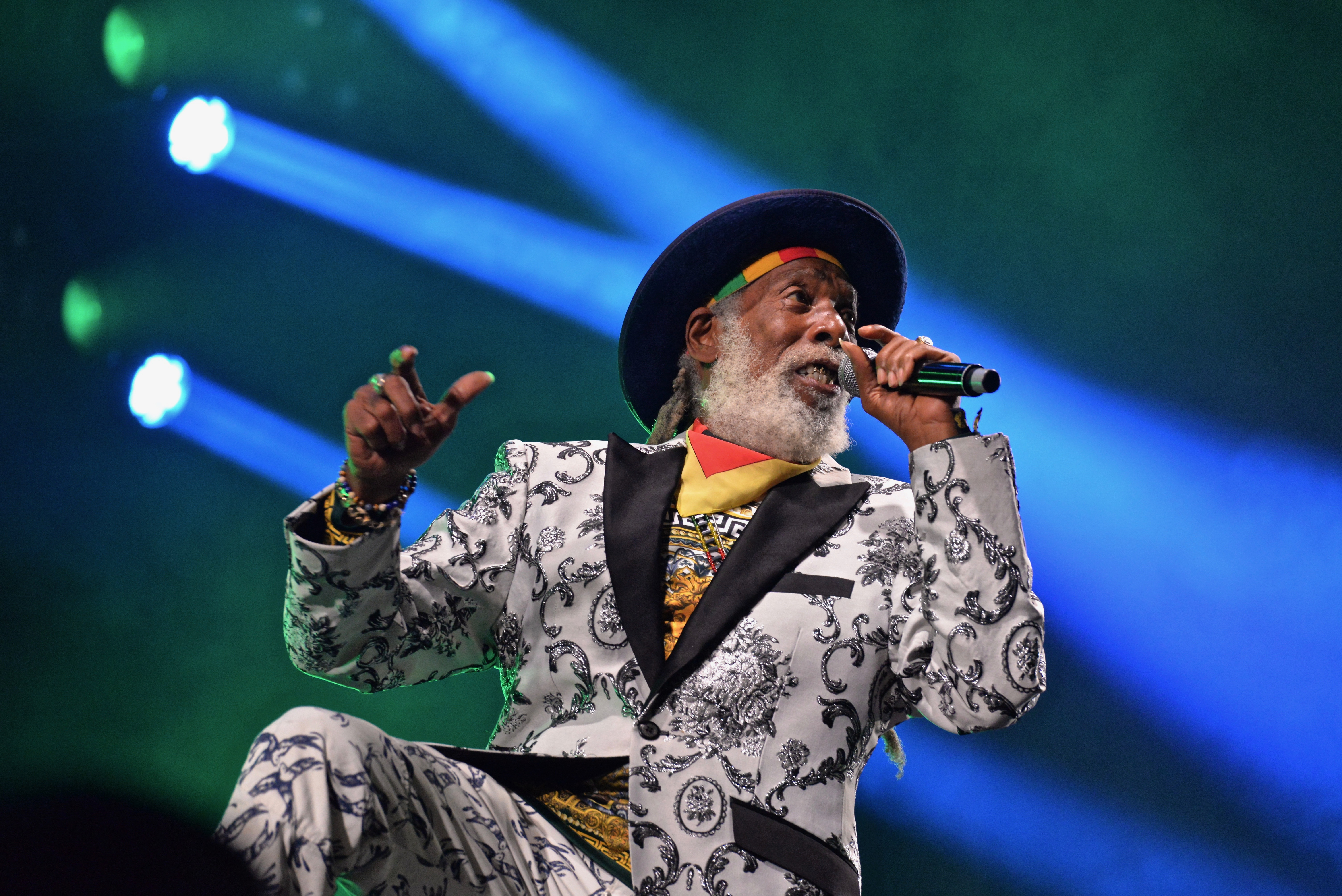 Big Youth, Reggae Geel, August 3 2019, Belgium.